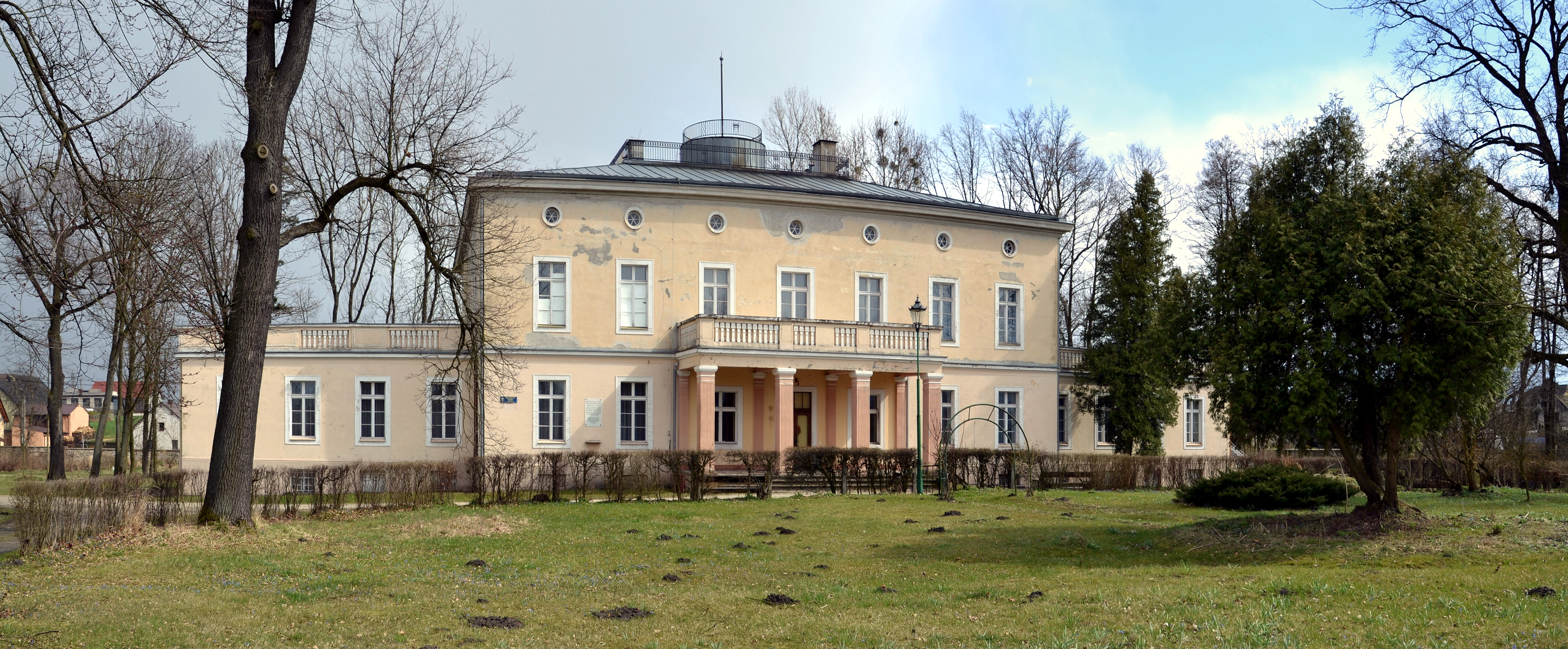 Błotnica Strzelecka (Blottniz, Quellengrund), Silesia - palace